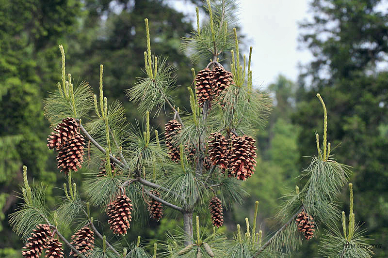 Blue Pine Pinus wallichiana in Kullu- Manali District of Himachal Pradesh, India.